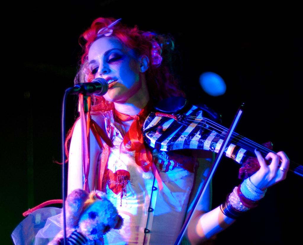 All 91 photos are available in full resolution of up to 10 MP (3872 x 2592) on